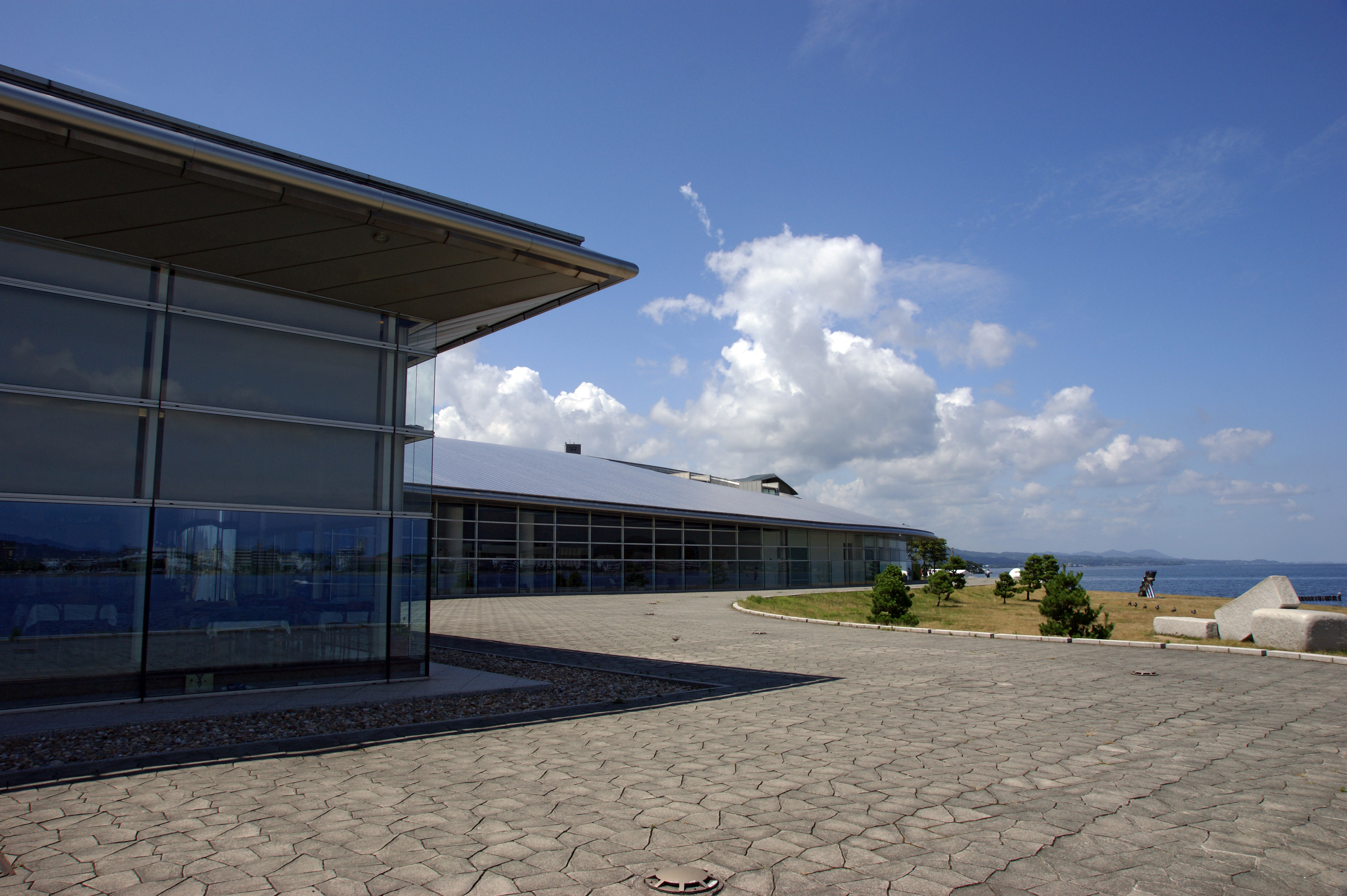 Shimane Art Museum in Matsue, Shimane prefecture, Japan